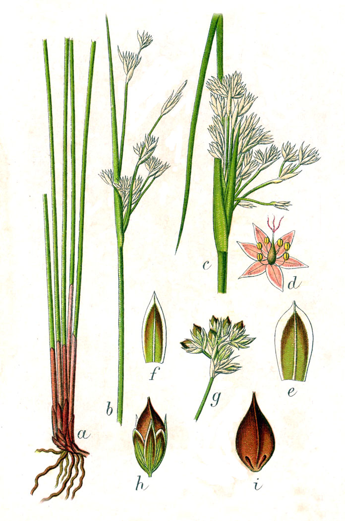 Juncus maritimus Lam. Original Caption Strand-Binse, Juncus maritimus